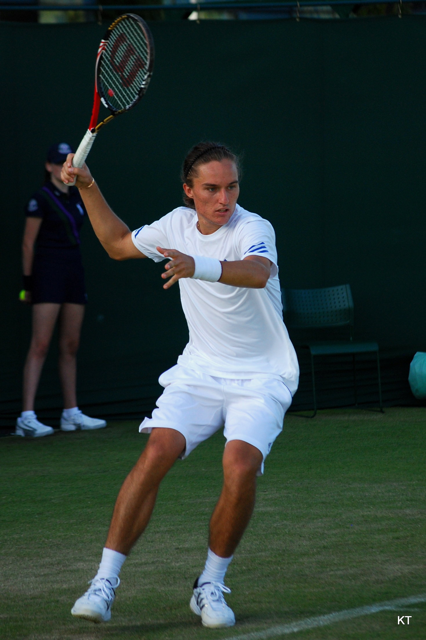 Alexandr Dolgopolov during his first round match with Fernando Gonzalez . Gonzalez won 6-3, 6-7, 7-6, 6-4. Day 2 of Wimbledon 2011.